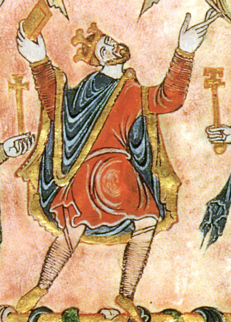 Detail of miniature from the New Minster Charter, 966, showing King Edgar